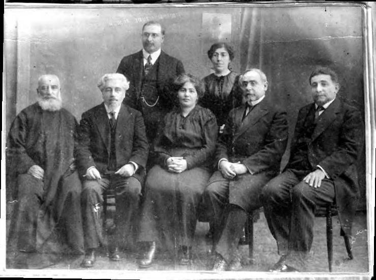 Zabel Yesayan (center) in Constantinople with several literary figures, including Krikor Zohrab, far right, and Levon Shant between Zohrab and Yesayan.